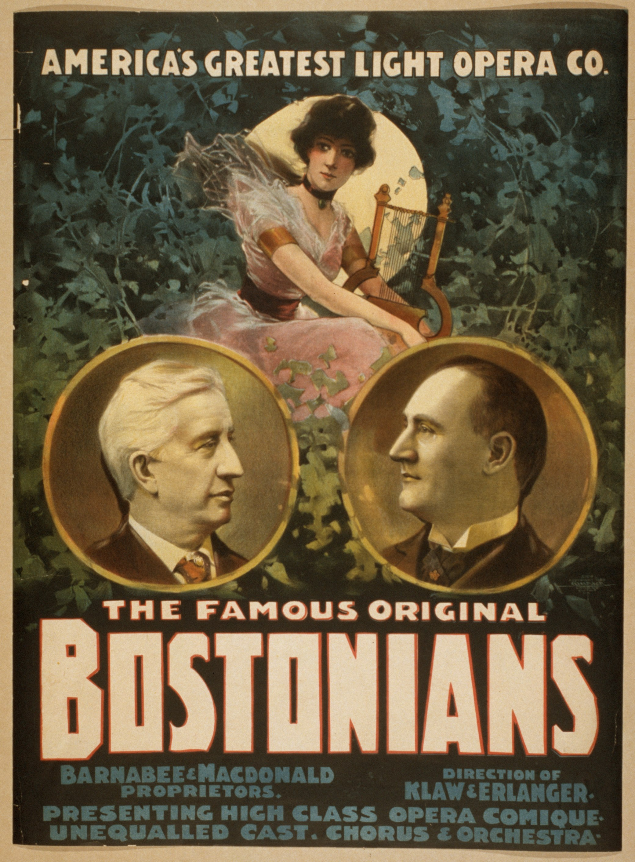 Title: The famous original Bostonians America's greatest light opera company. Abstract: 1 print : color lithograph ; sheet 71 x 52 cm. (poster format)